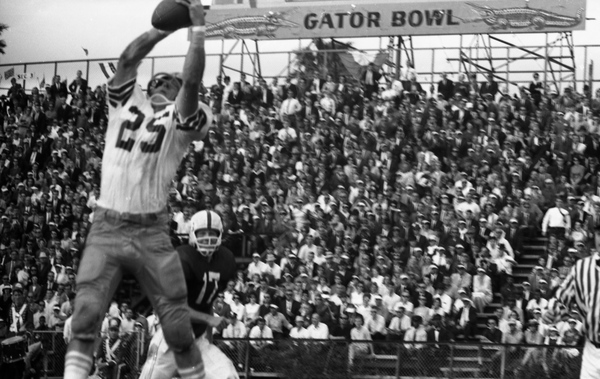 FSU wide receiver #25 Fred Biletnikoff catching the football during game against the University of Oklahoma at the Gator Bowl in Jacksonville.